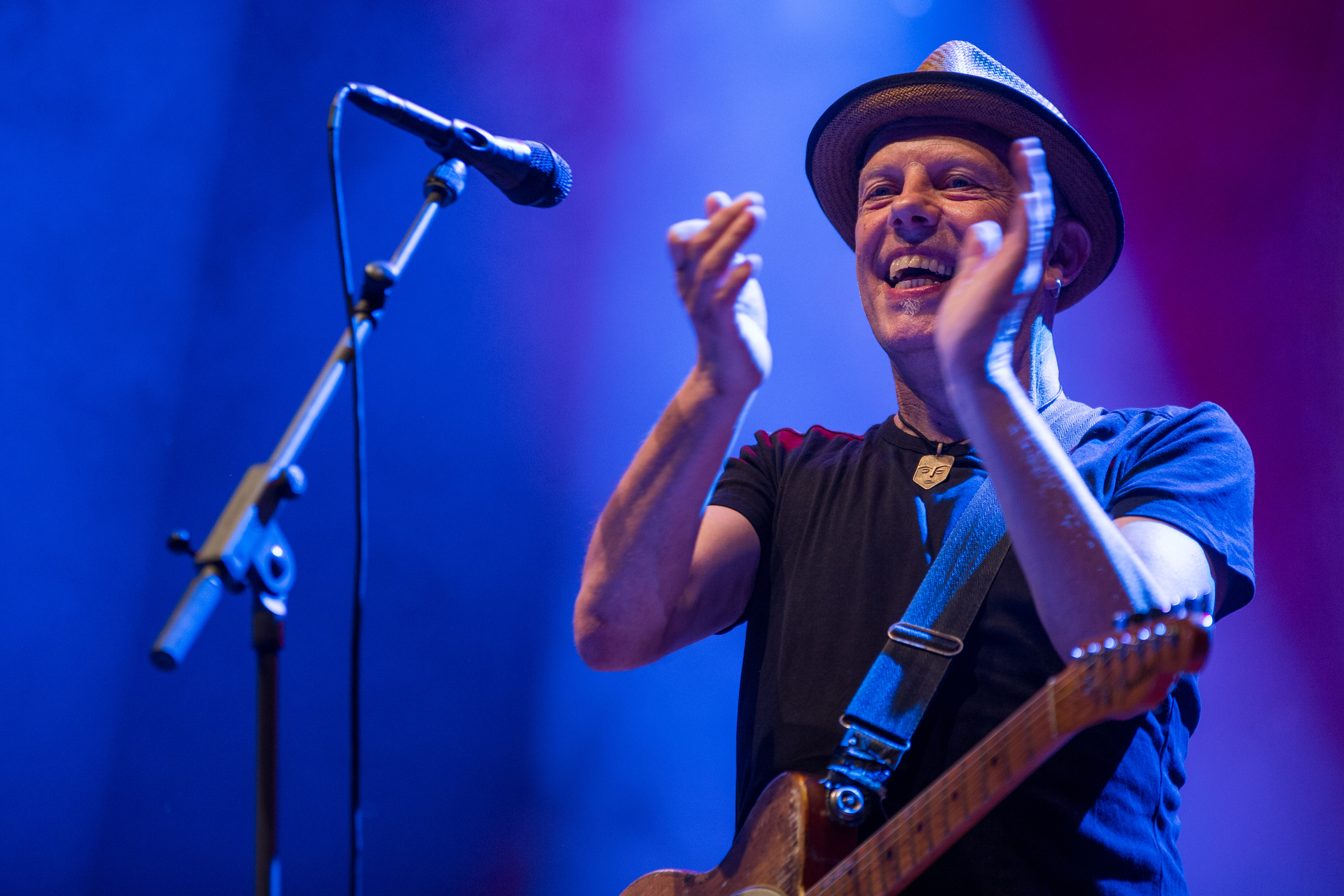 Celtic Social Club TTF.Rudolstadt 2015 Festivalsommer This photo was created with the support of donations to Wikimedia Deutschland in the context of the CPB project "Festival Summer".